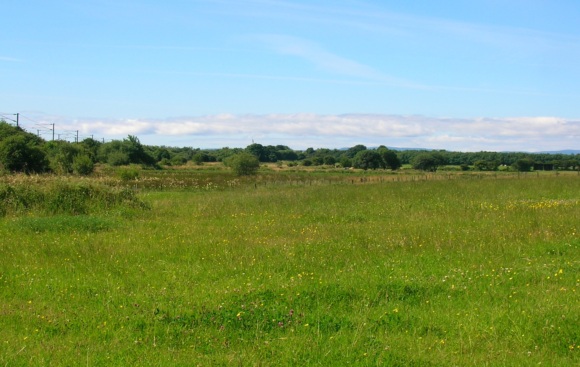 Site of the old coastline and seashore near Dubbs Farm, Stevenston, North Ayrshire, Scotland.